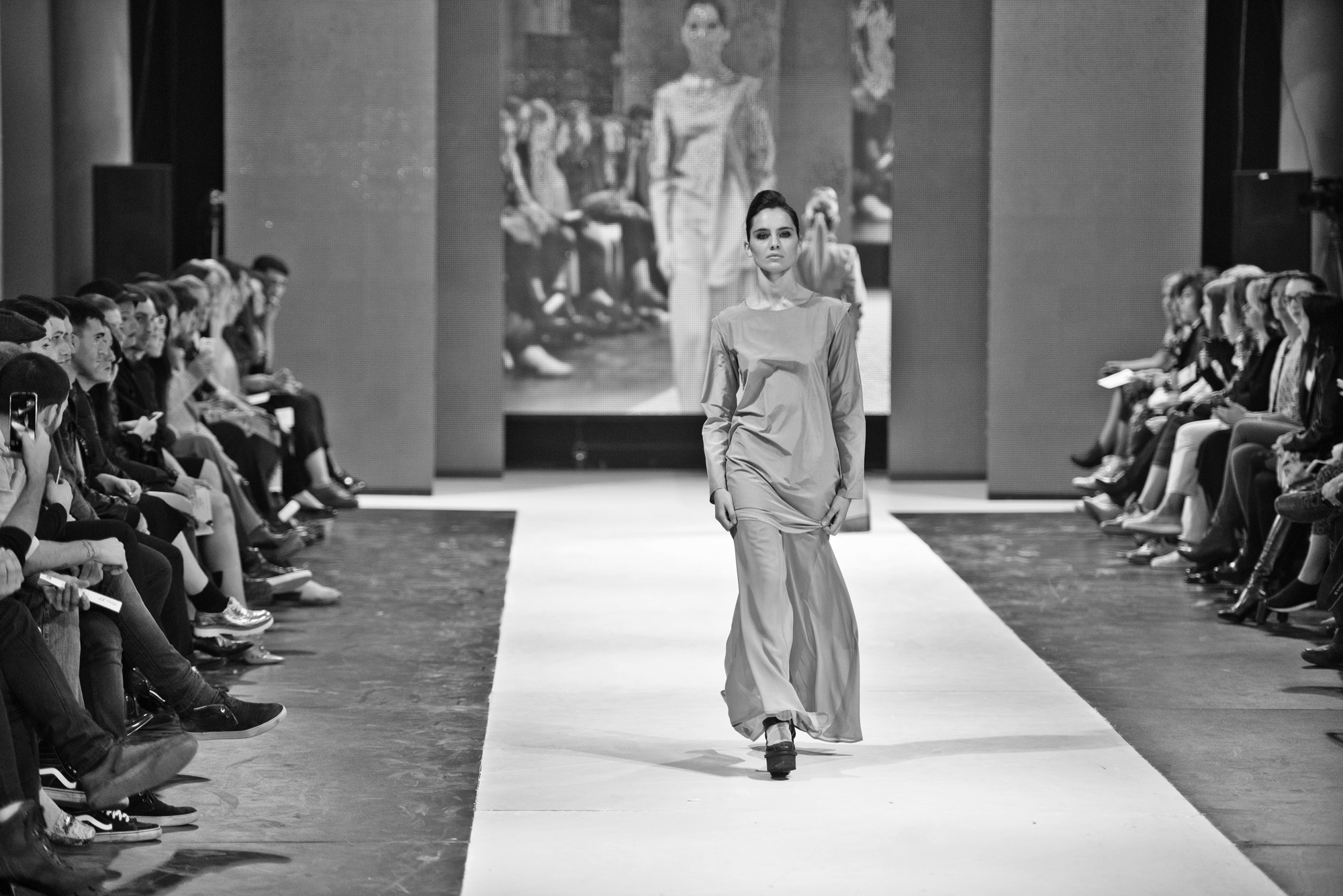 Backstage, 1st row, and catwalk in photos